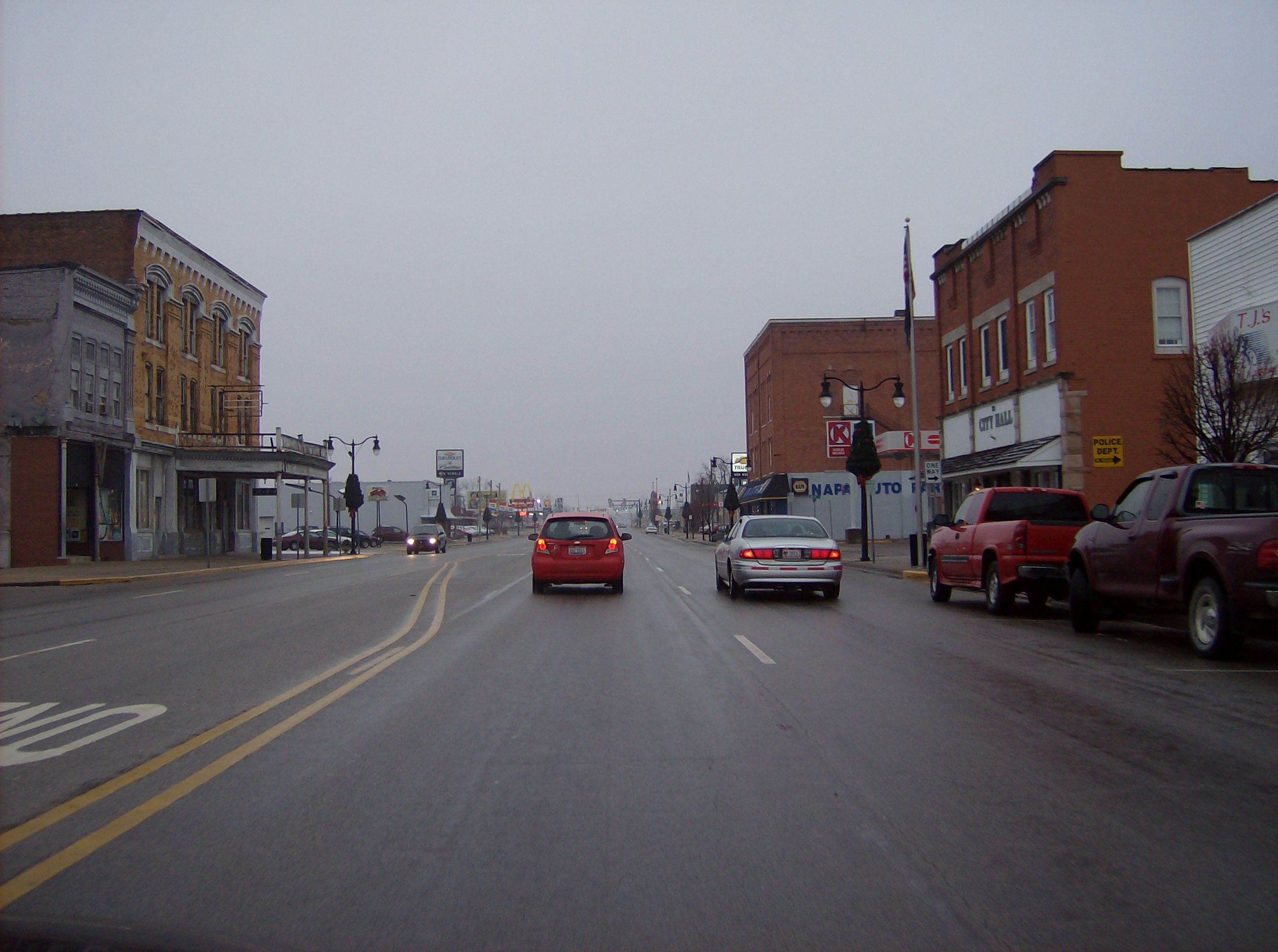 Northbound along Meridian Street (U.S. Route 27, State Road 26) in downtown Portland, a city in central Jay County, Indiana, United States. This block is part of the Portland Commercial Historic District, a historic district that is listed on the National Register of Historic Places.